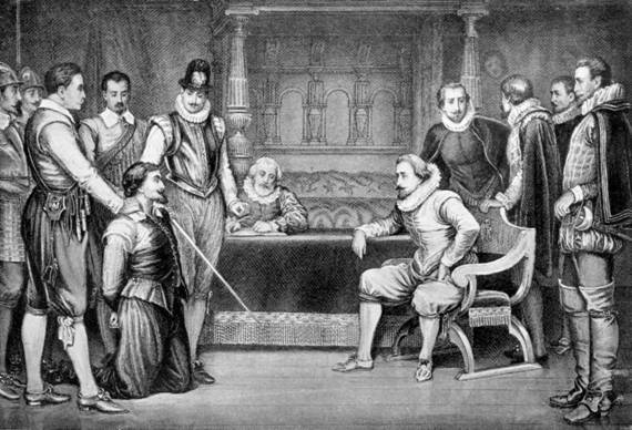 Guy Fawkes 1570-1606 interrogated by James I 1566-1625 and his council in the King's bedchamber, from Illustrations of English and Scottish History Volume I (1884).